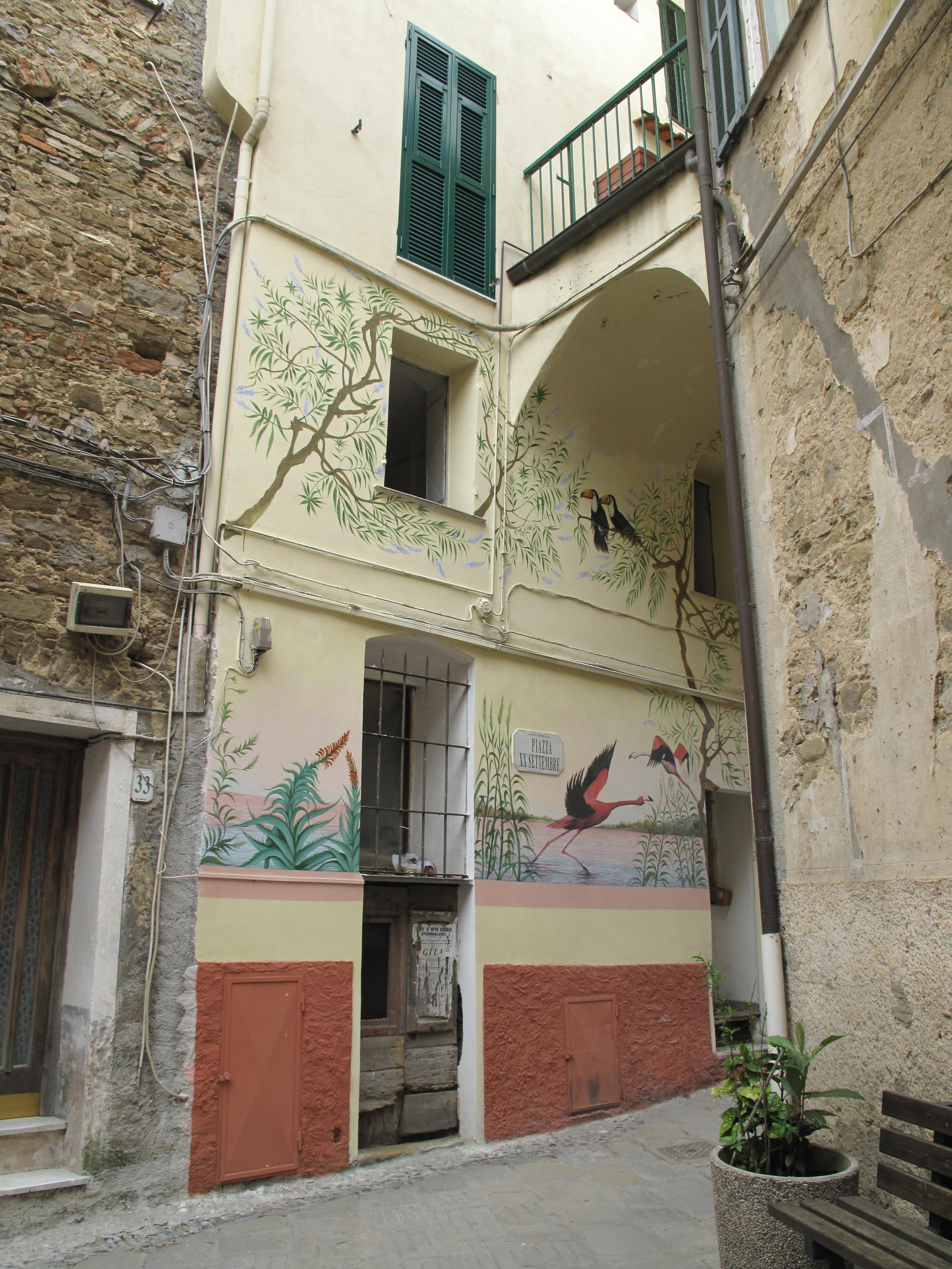 Frescos in a street of the Italian village of Perinaldo (Liguria, Italy).